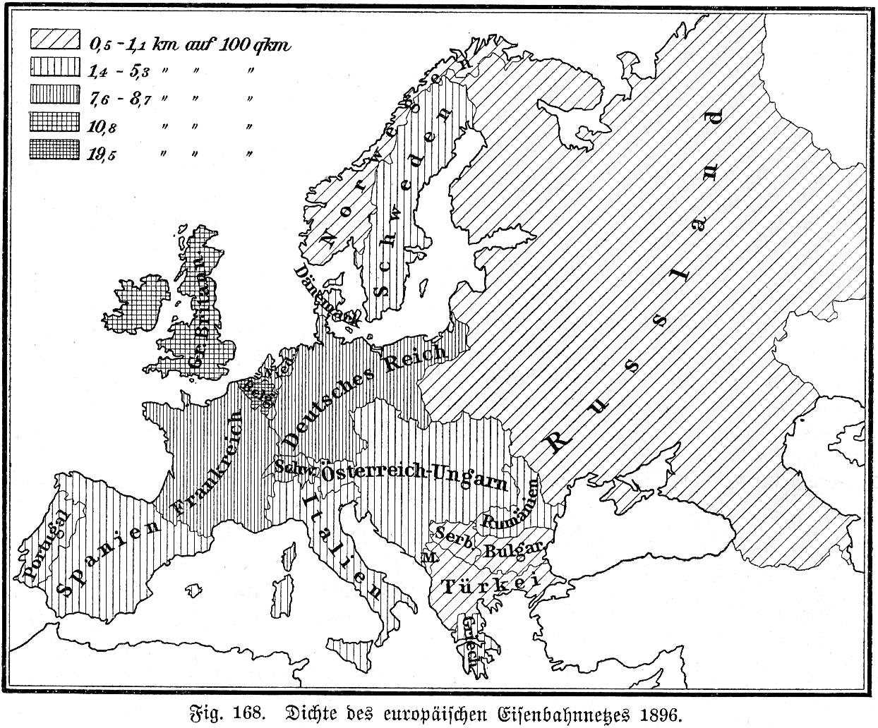 Density of European railway system in 1896